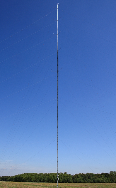 New Mast near Brockeridge Common. Doesn't appear to be a communications mast. No obvious aerials, transmitter housing, etc. Four pairs of anemometers plus perhaps one single are located at various points up the mast.1318301 A solar panel and small equipment box is located near the base. Sited just inside a field next to the common with Harbour Wood behind. Certainly looks like a survey for the possible sighting of a wind farm. See